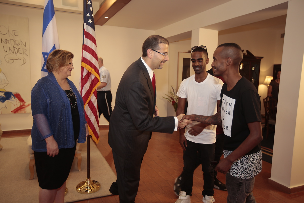 July 4th 2015